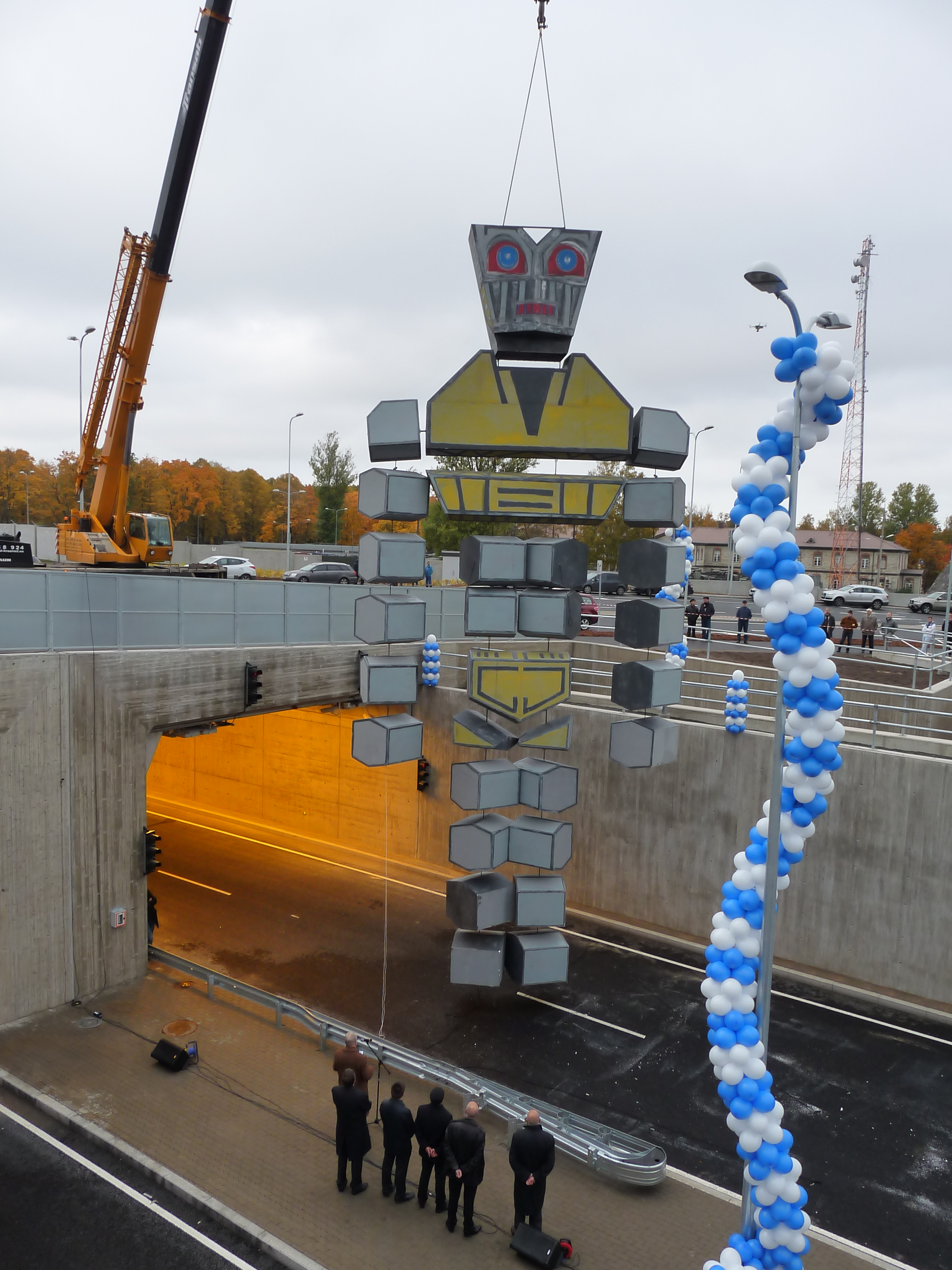 Opening of Ülemiste transport node